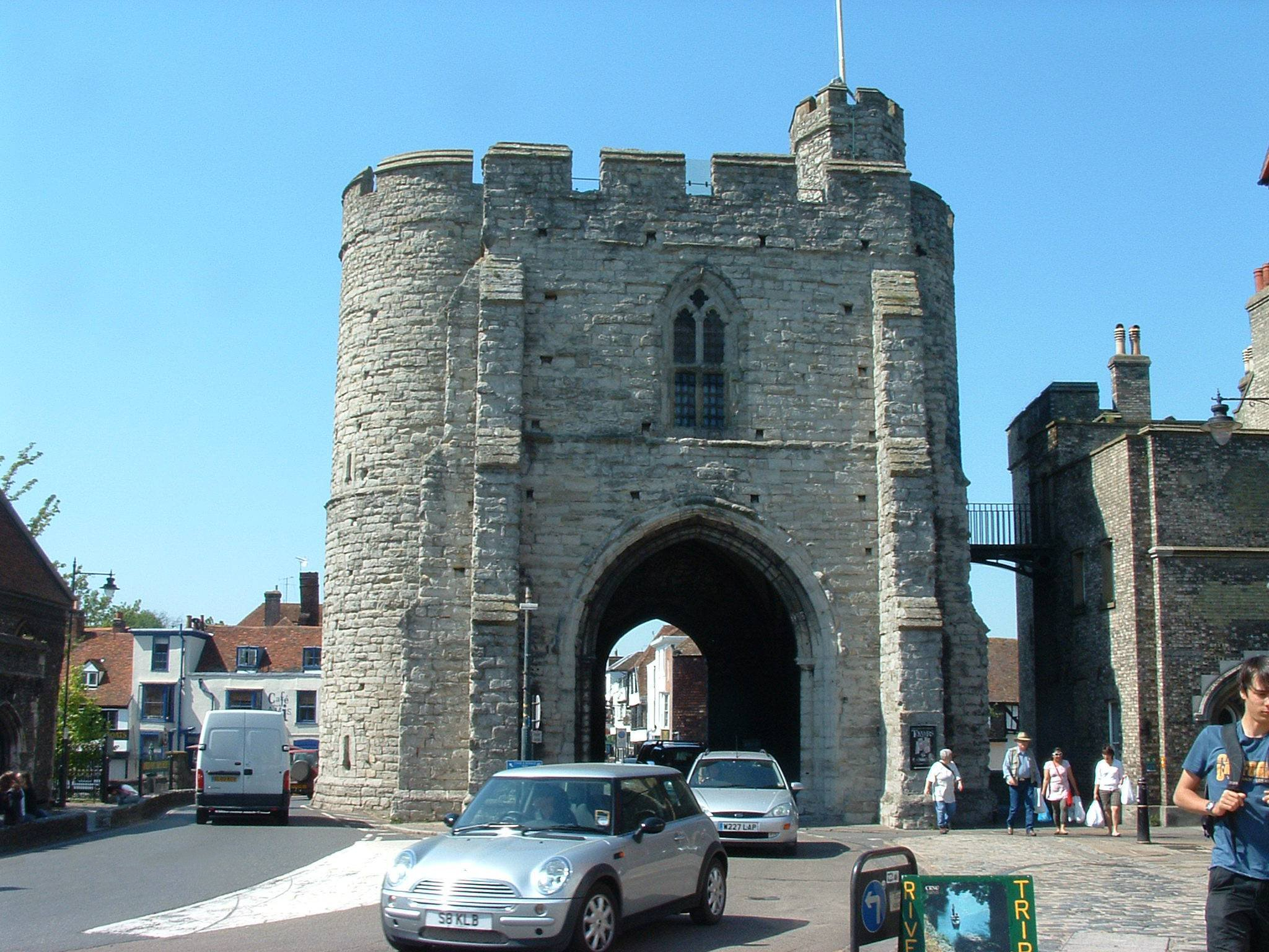 Canterbury West Gate, England.